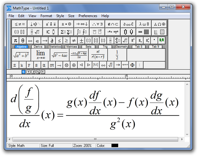 Screenshot of MathType 6.7